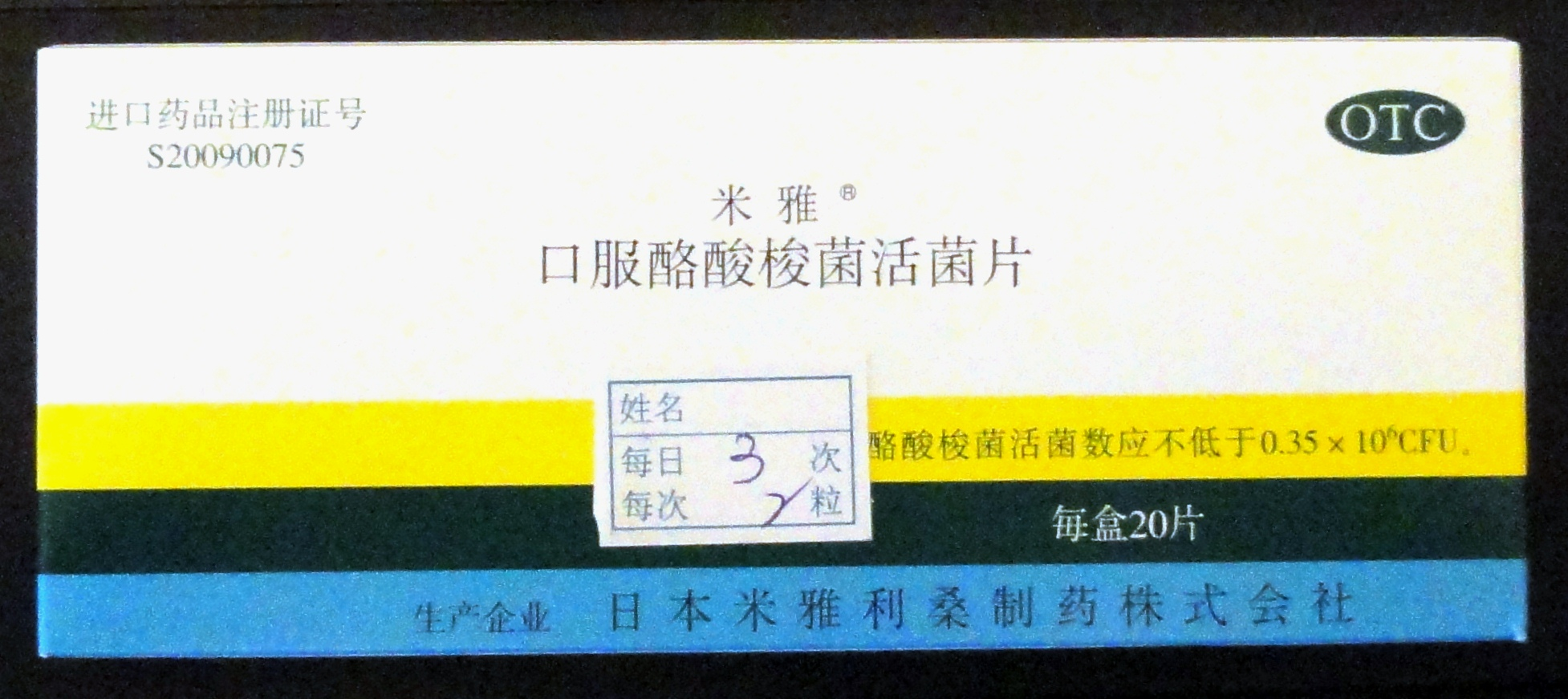 Clostridium butyricum tablets